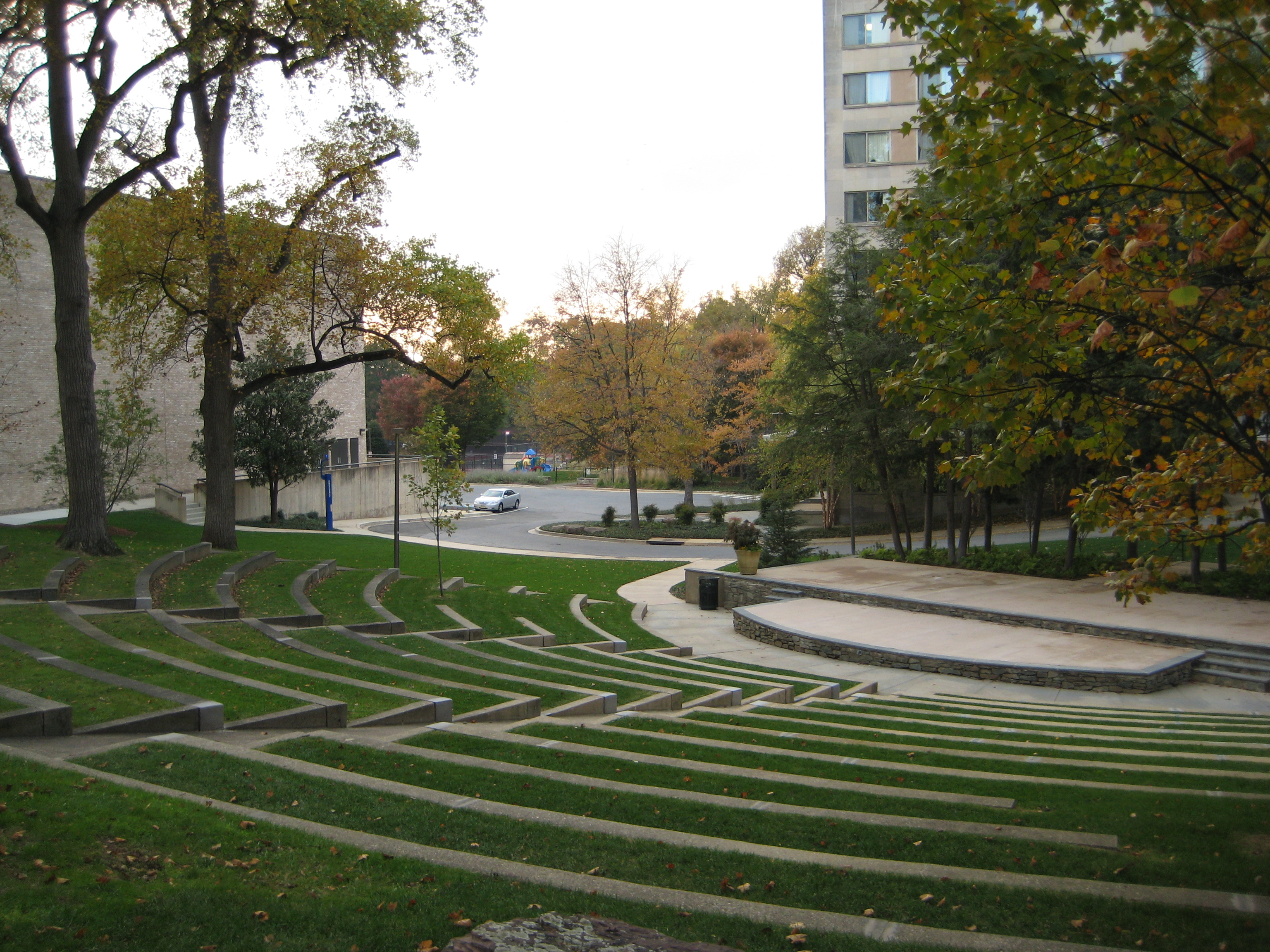 Woods-Brown Amphitheatre. I took this photo on November 10th, 2007.